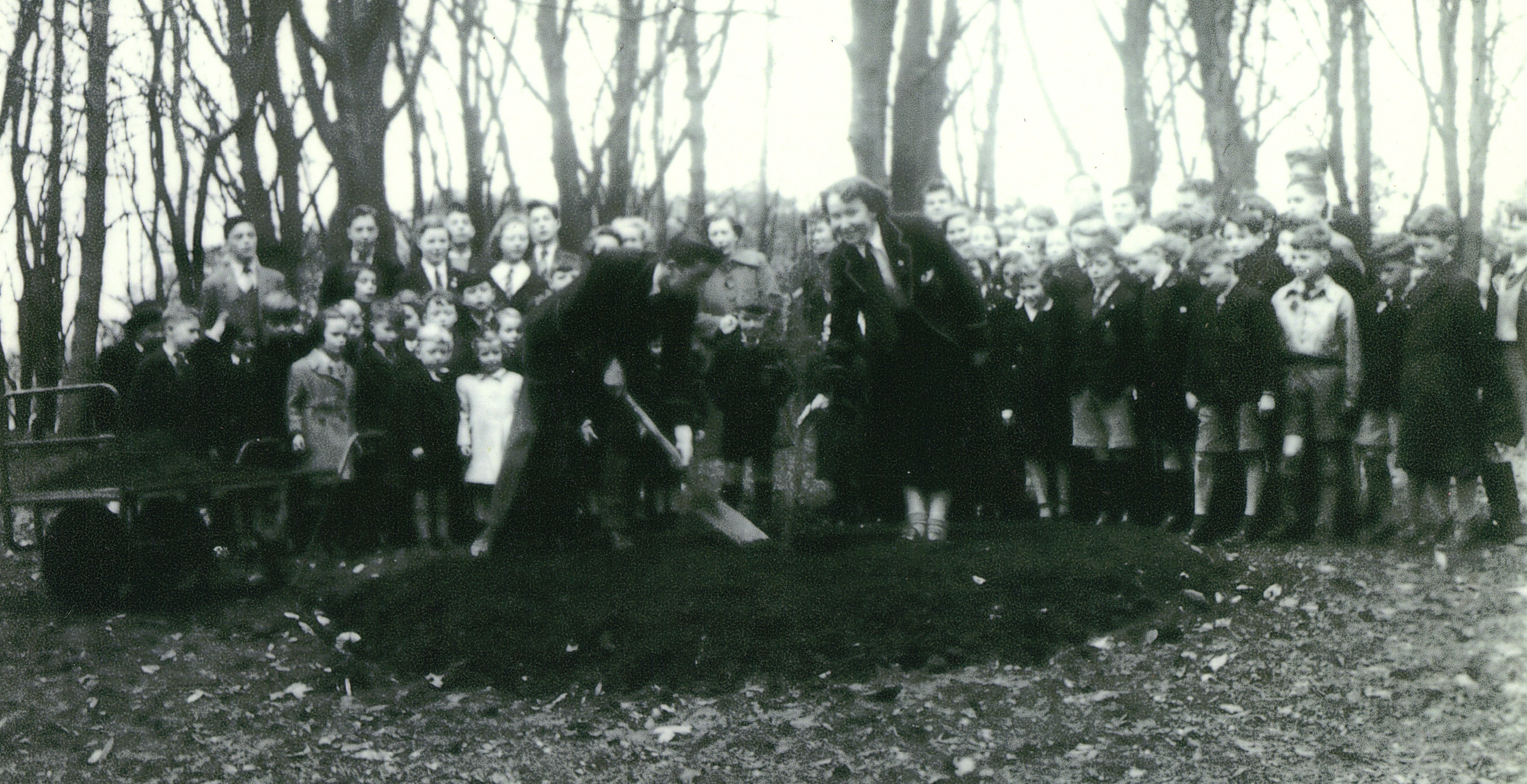 Spier's School Coronation Garden Dawn Redwood tree planting ceremony. Beith, North Ayrshire, Scotland.